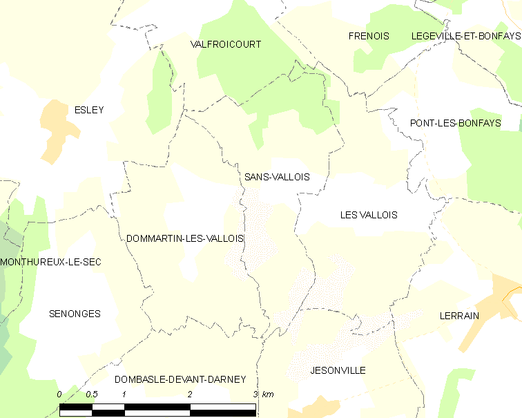 Map of French municipality Sans-Vallois